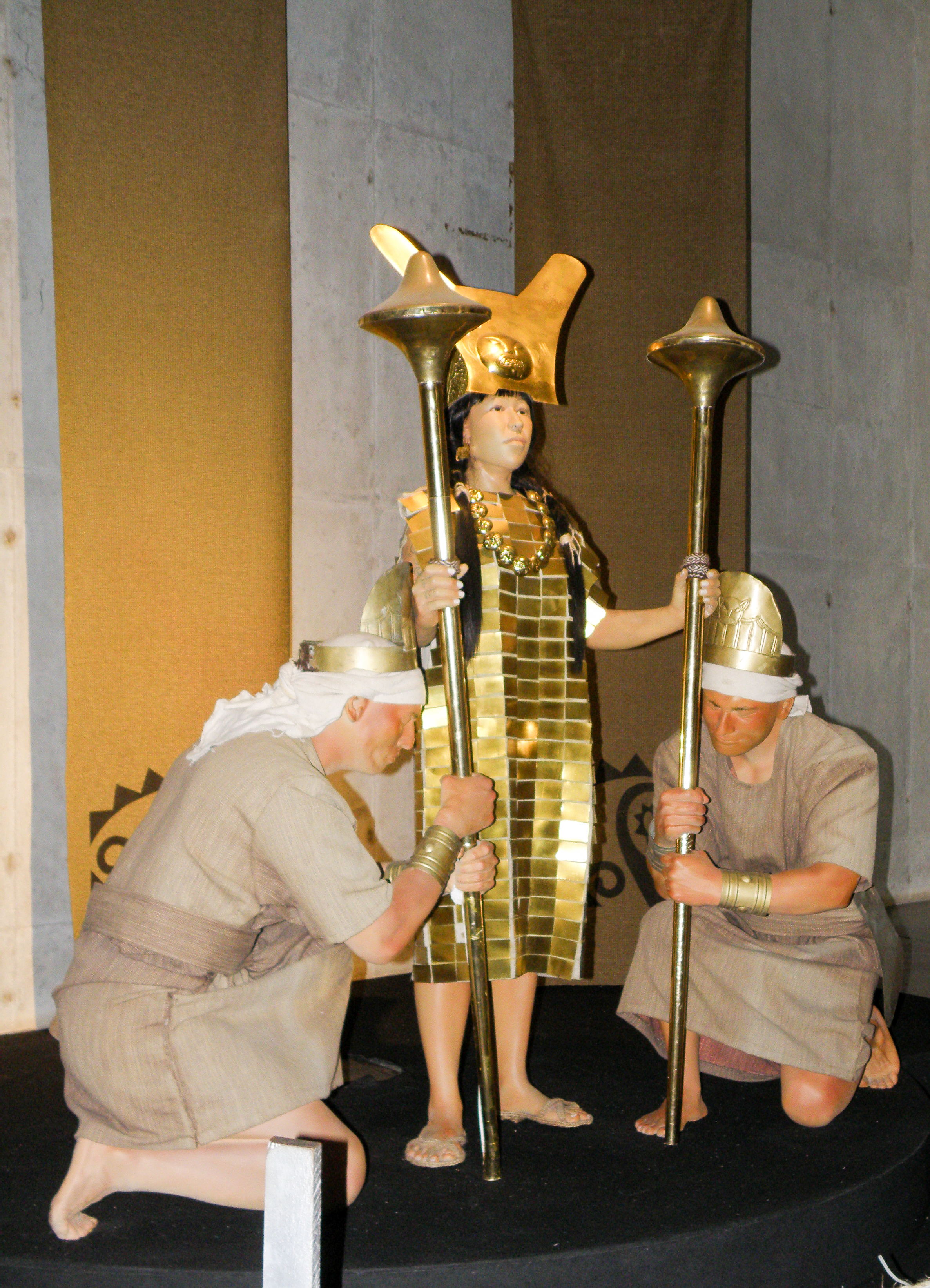 The Cao Museum is located on the El Brujo archaeological site near Trujillo in Peru.